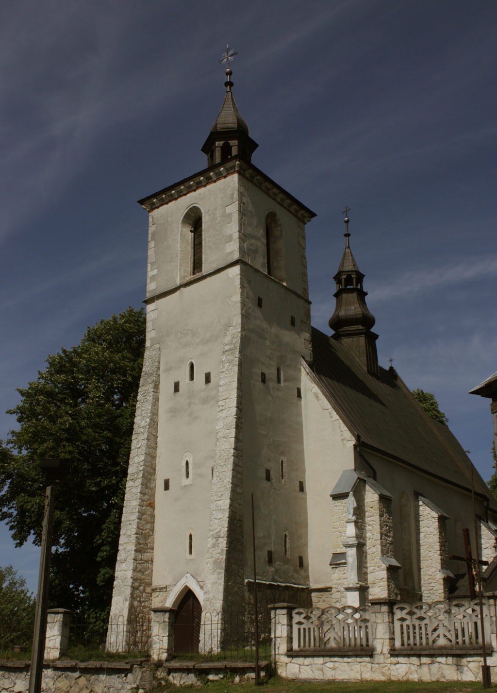 Church of the Assumption in Czarnocin, Poland